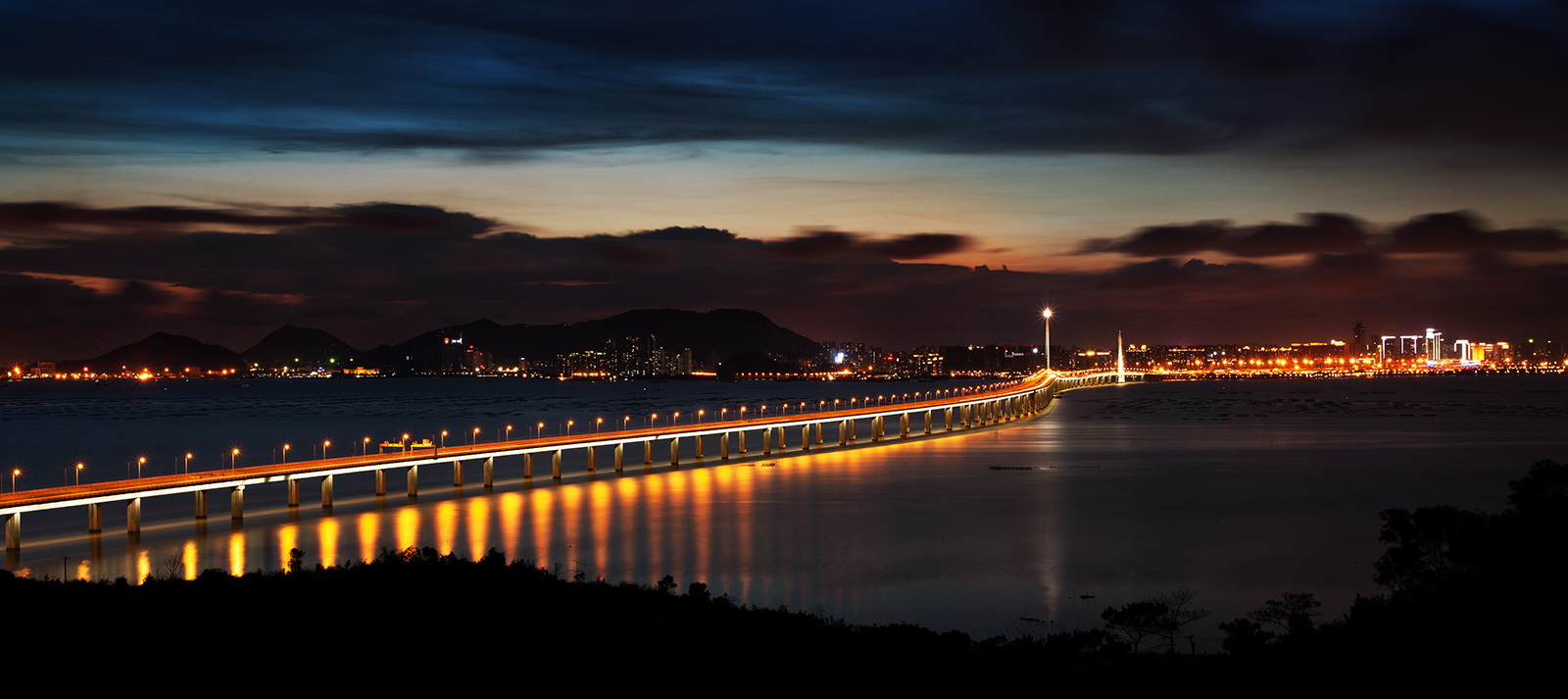 Shenzhen Bay Bridge, China